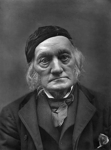 Portrait of Professor Richard Owen, comparative anatomist, Woodburytype, 9.7 x 7.1 in (247 mm x 180 mm)